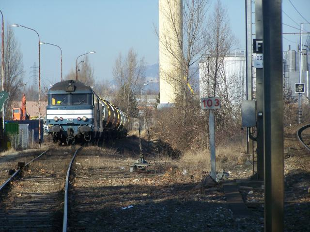 Local freight train supplying some factories of the industrial zone ofChambéry in Savoie, France.